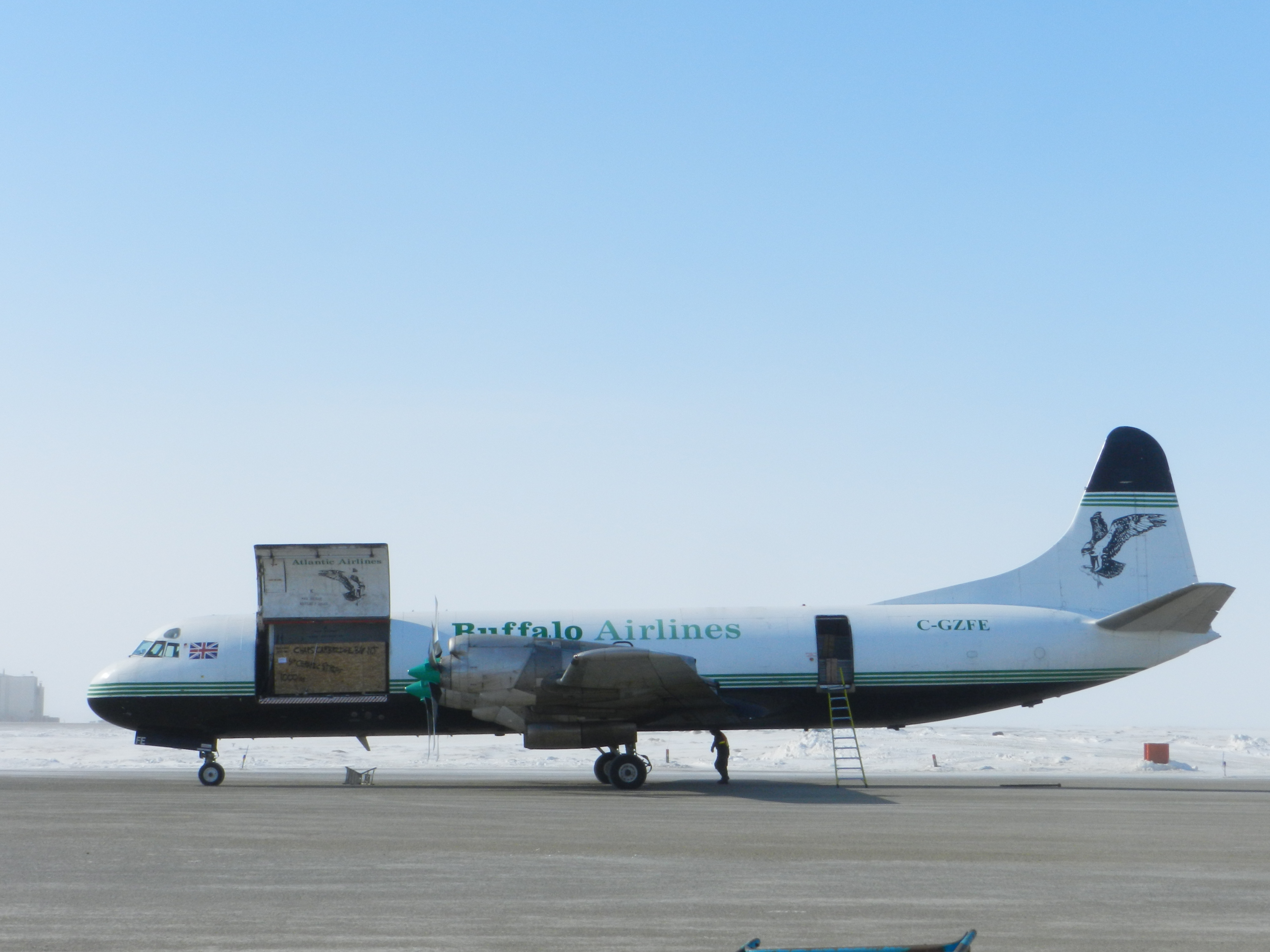 C-GZFE L188C Buffalo Airways Ltd